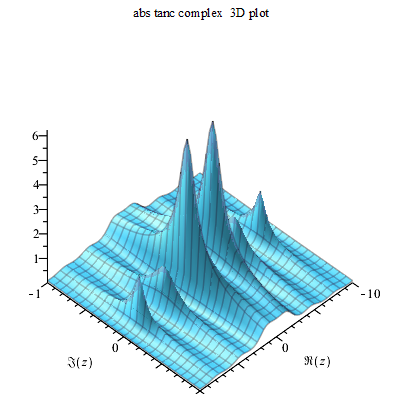 Tanc abs complex 3D plot